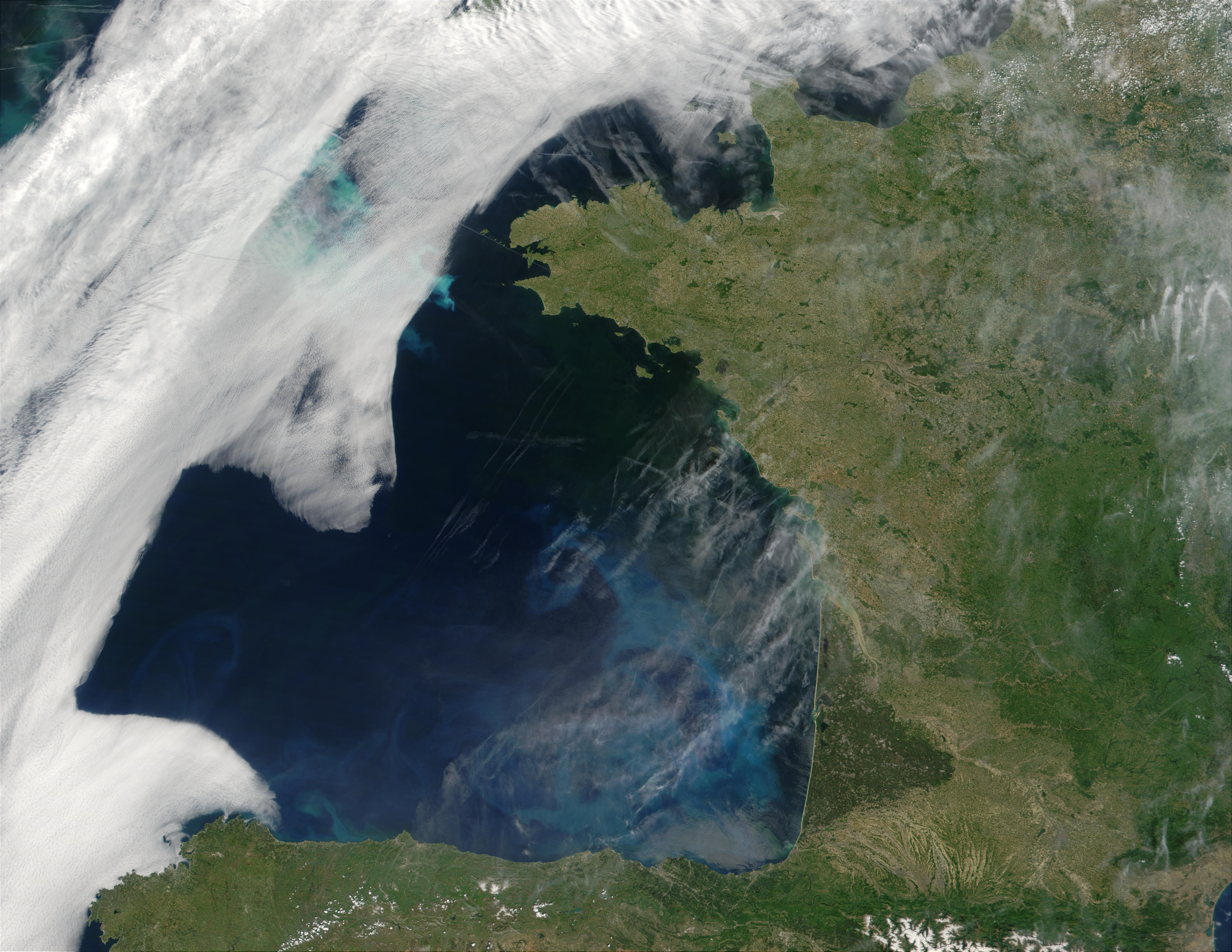 Phytoplankton bloom in the Bay of Biscay and off the coast of Brittany, France. Satellite: Terra. Pixel size: 250m.